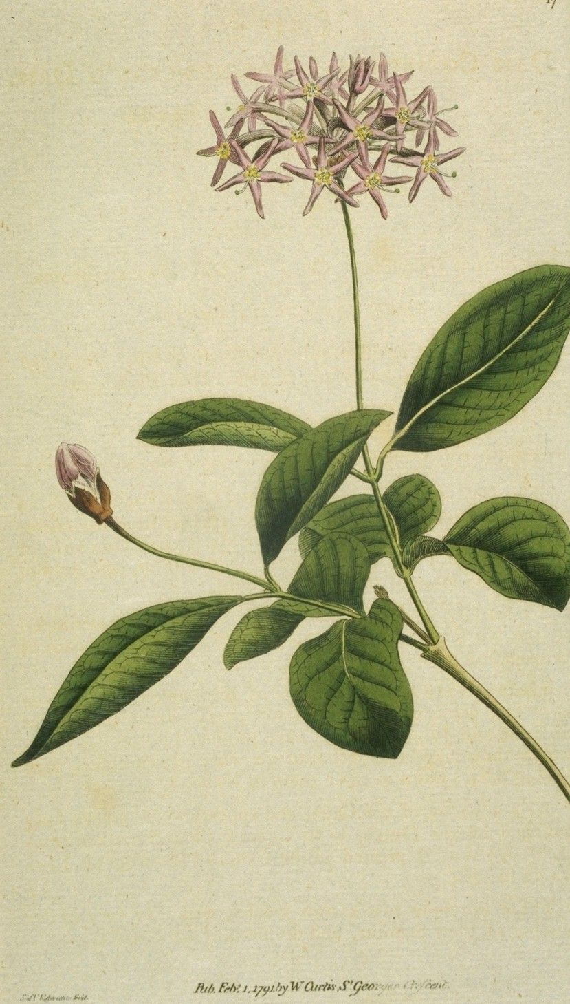 Reproduction of an image that appeared in The Botanical Magazine vol. 5. no. 145 (1792). It depicts Dais Cotinifolia by Sydenham Edwards.